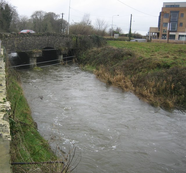 Tolka River passing under Clonee Bridge, Clonee